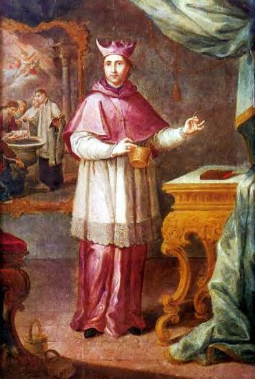 Monsenior Juan Alejo de Arizmendi (1760-1814)